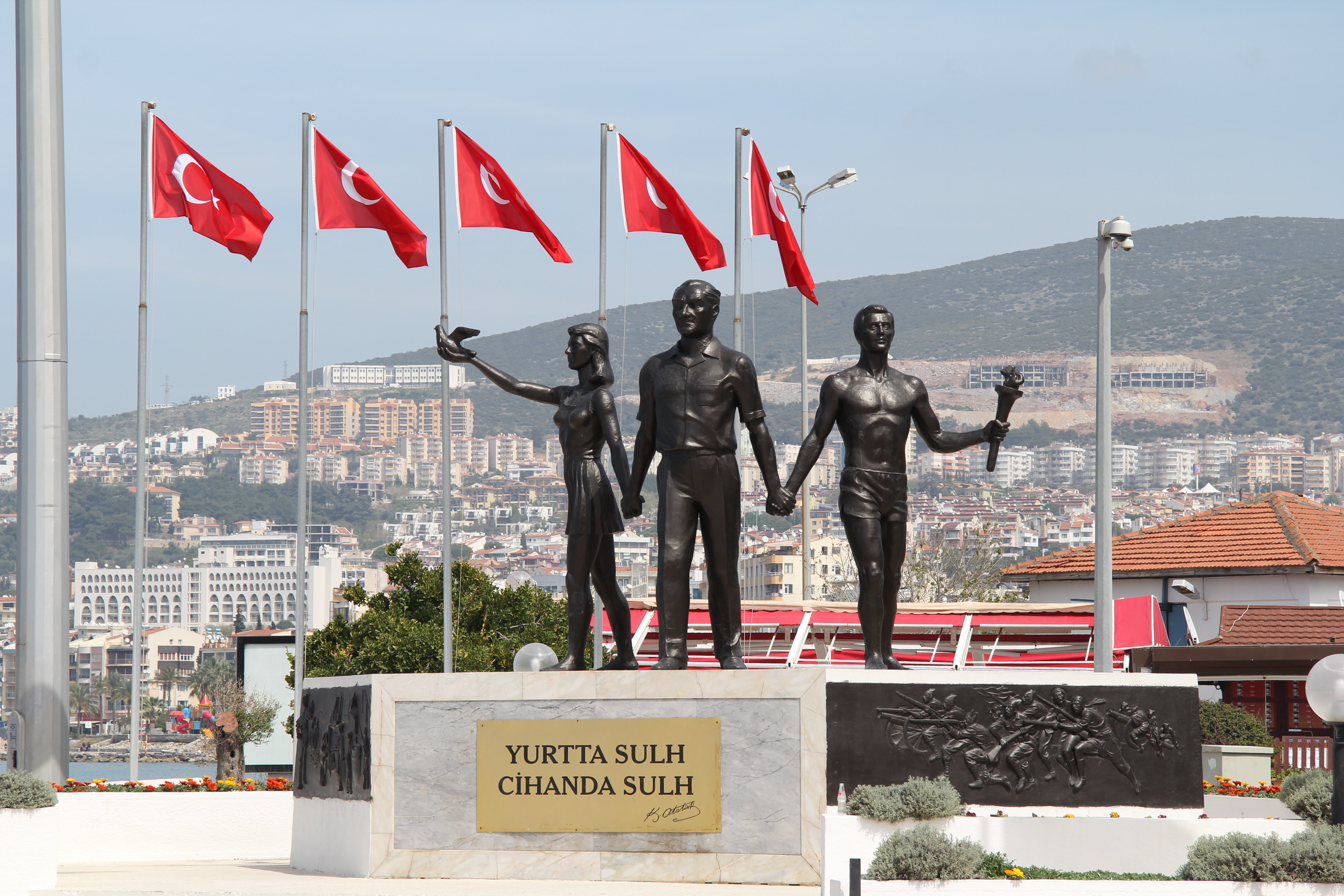 Kuşadası, Turkey, monument for Mustafa Kemal Atatürk Inscription: YURTTA SULH CİHANDA SULH